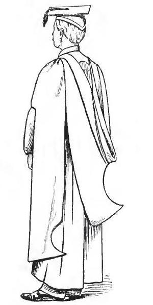 This image shows the hood and the back of a gown as worn by someone of the degree of Master of Arts from the University of Edinburgh. The design follows that set forth by the Intercollegiate Code of Academic Costume which is the dominant style used in the United States. However, the modern cut of the sleeve is completely different to the one pictured.